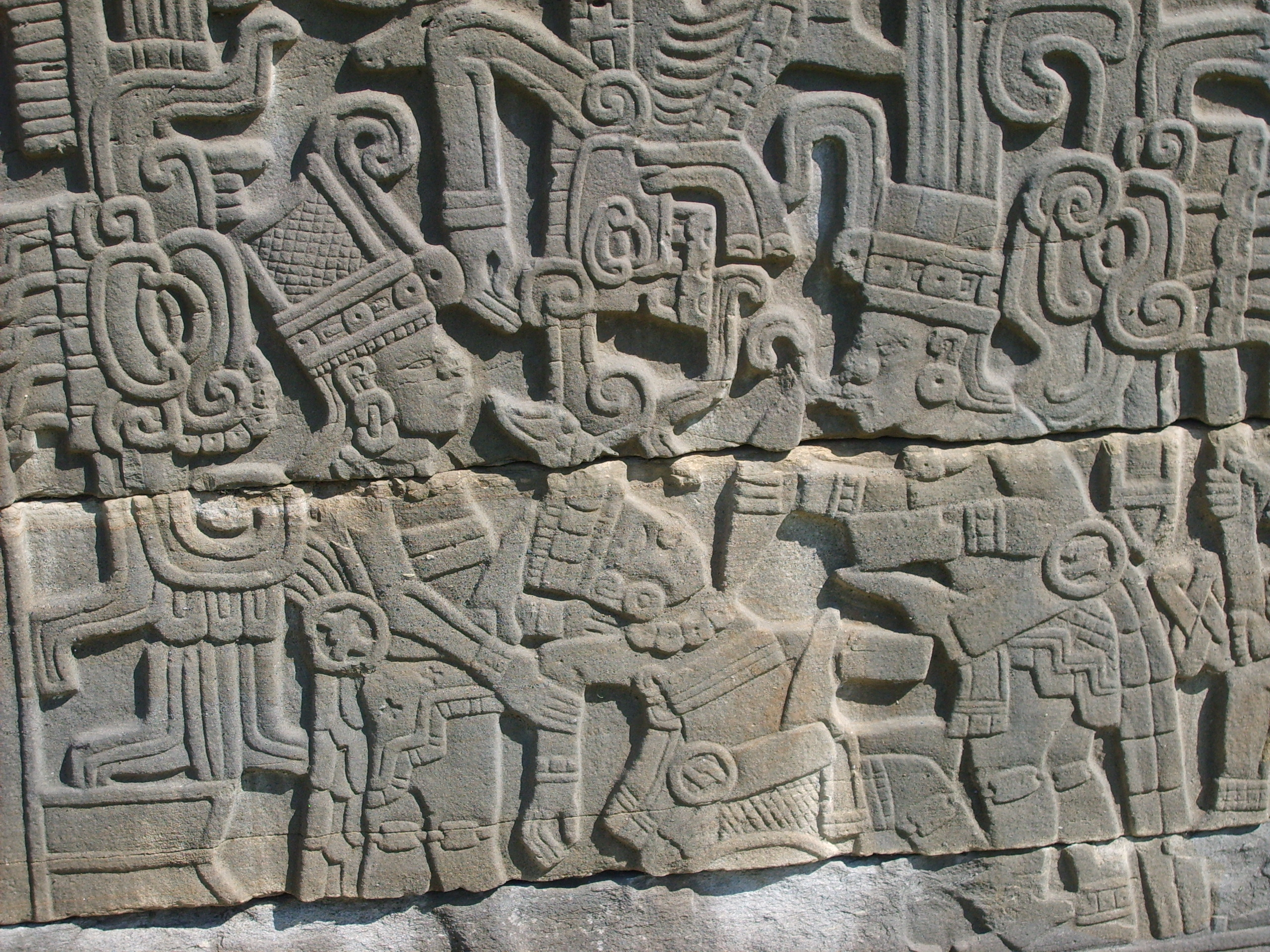 Sculpture representing human sacrifice from one of the ballcourts at El Tajín.